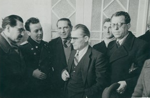 Konstantin Kusitasev and other doctors